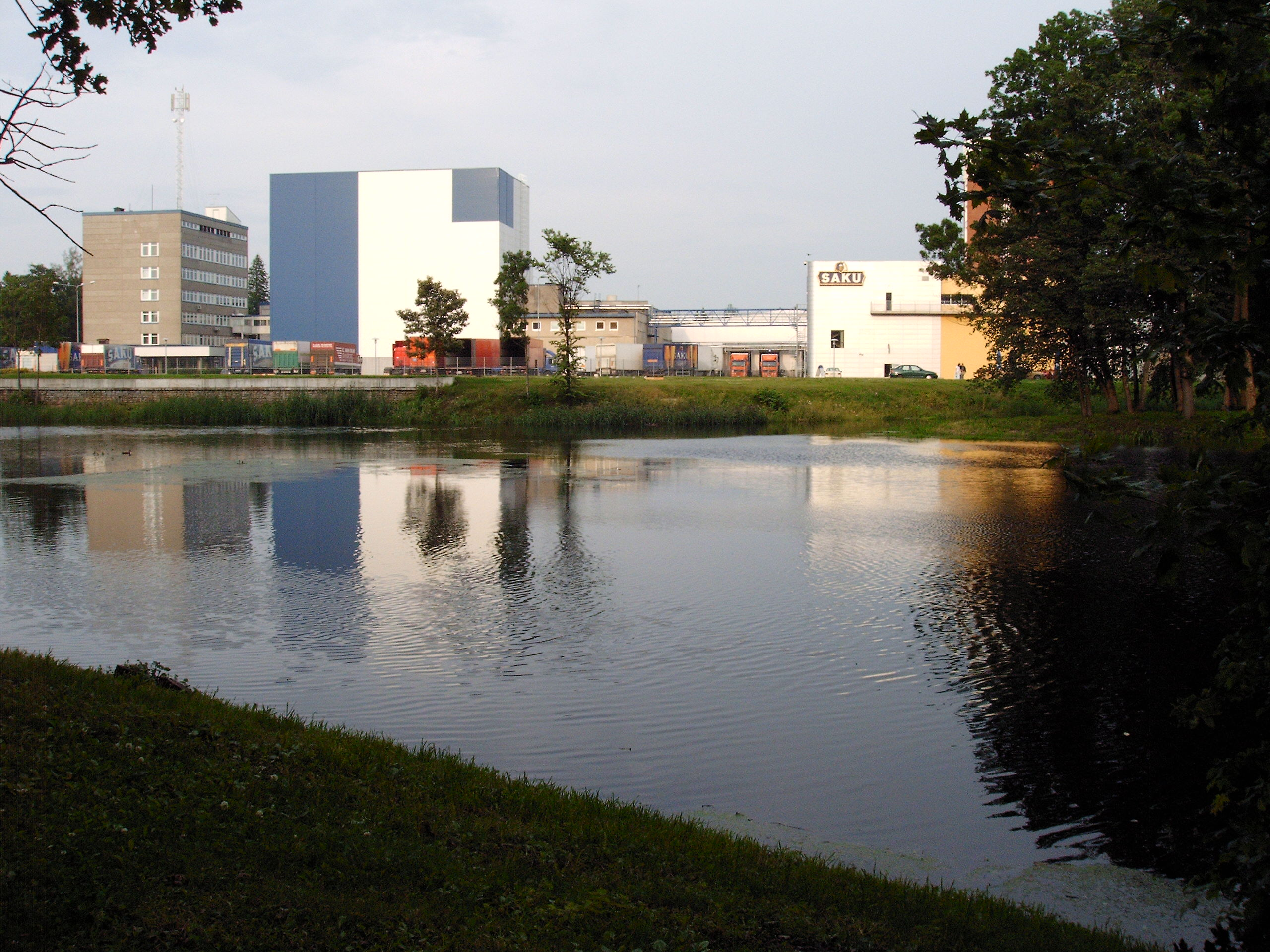 Saku Õlletehas in Harju County, Estonia.